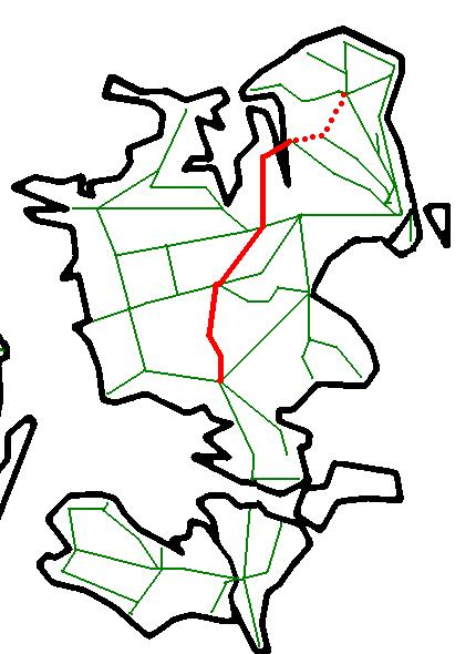 Map of the railways on Zealand (Sjælland) in 1932 with the now closed railway Midtbanen from Næstved to Frederikssund in red. The dotted line is the never finished extension to Hillerød.